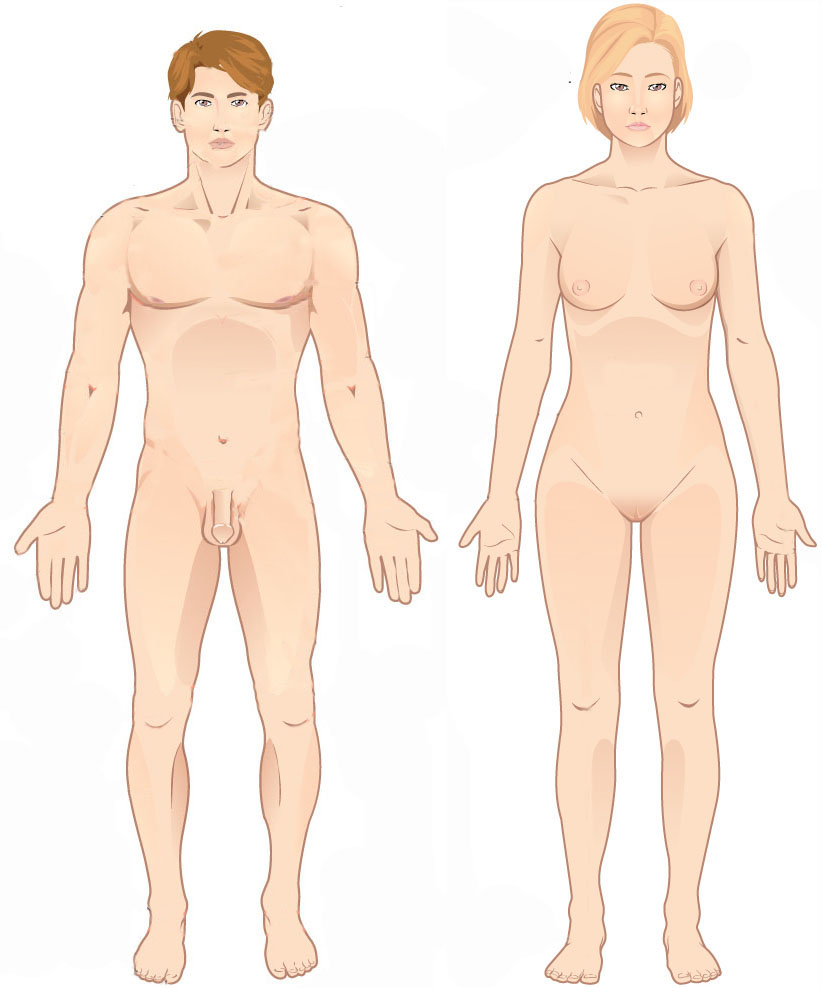 Anatomical position (credit: modification of work by Donna Browne).